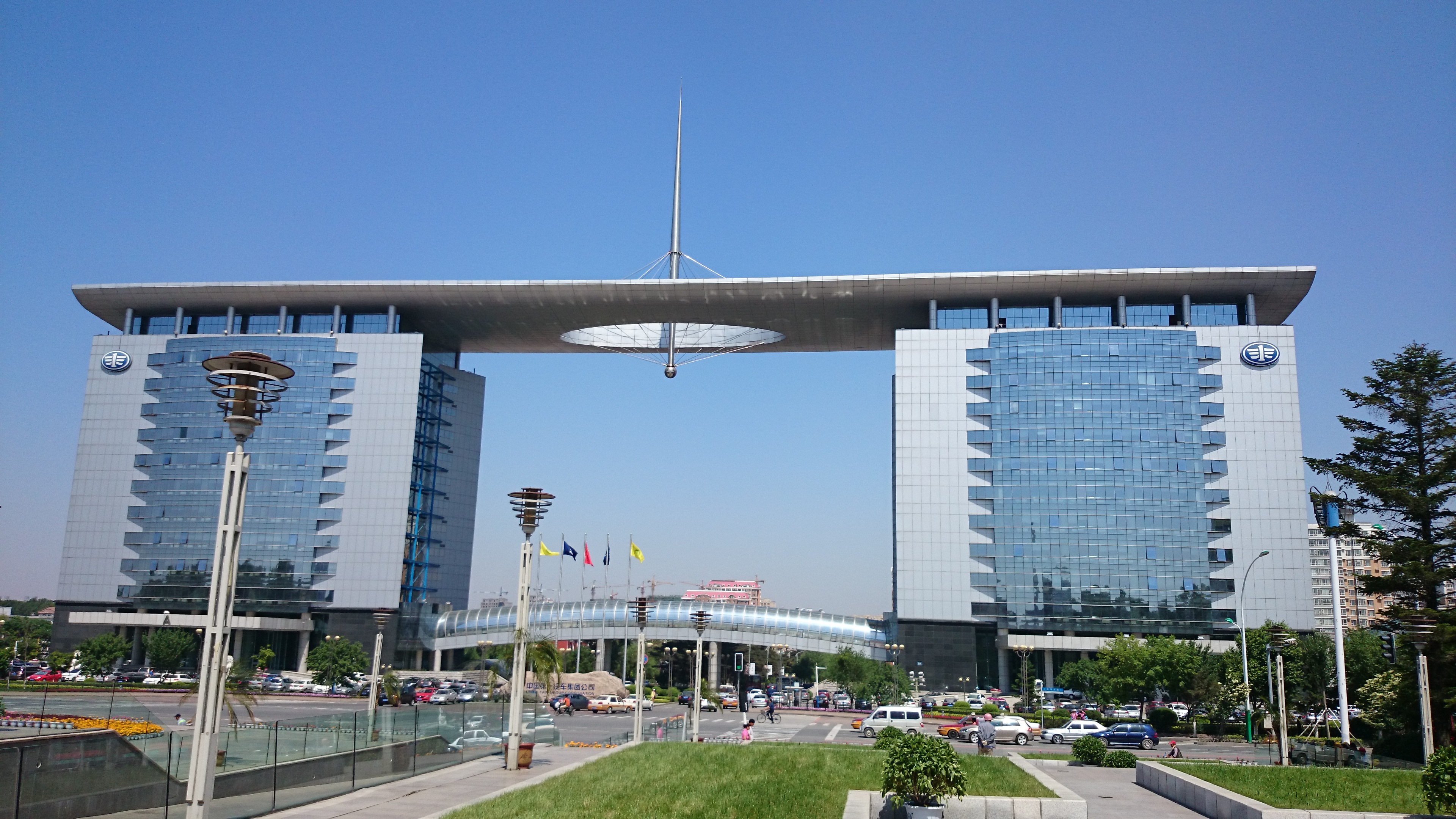 Headquarter of China FAW Group Corporation. Located in Luyuan District, Changchun